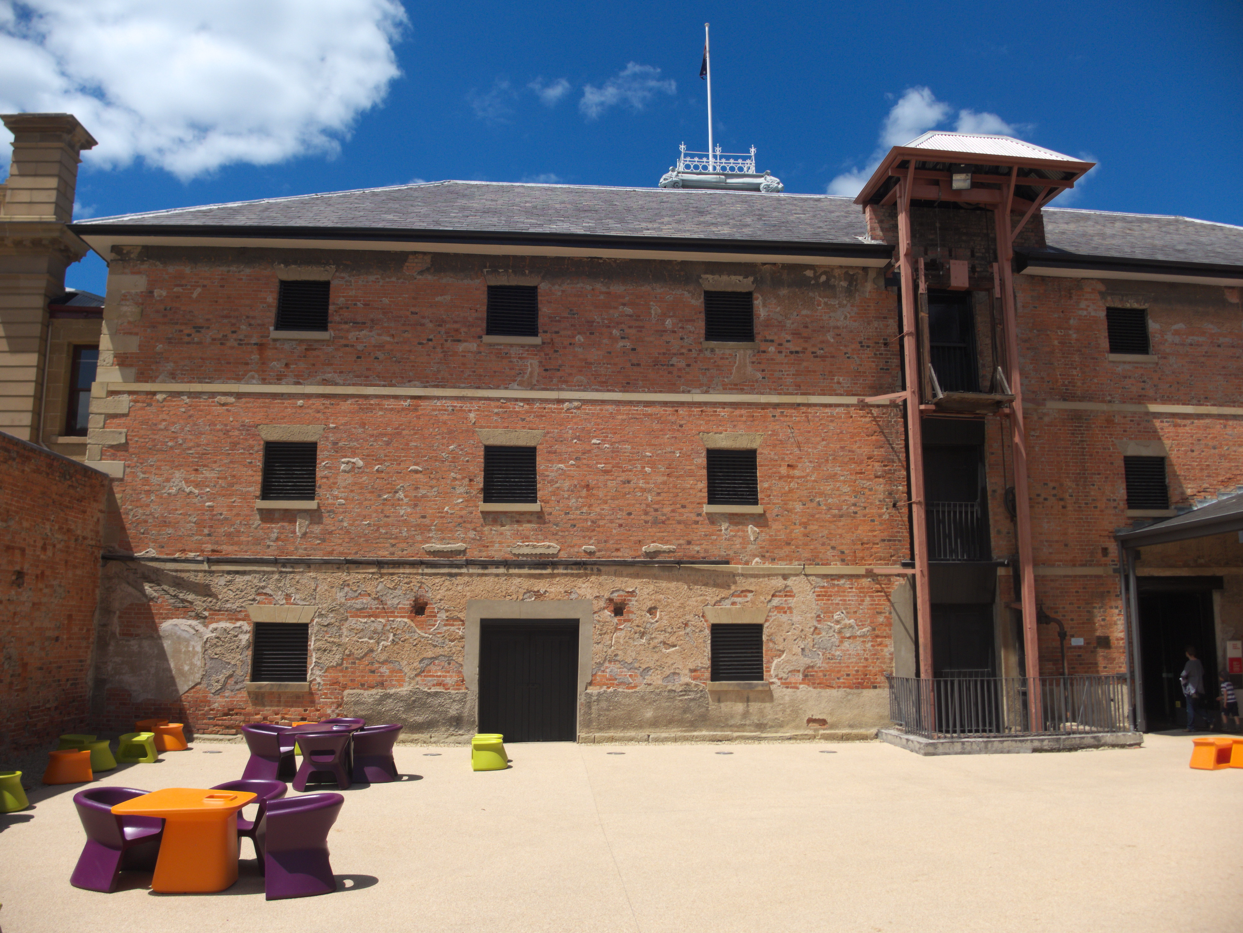 Courtyard and Bond Store, Hobart. Originally a customs warehouse, now part of the Tasmanian Museum and Art Gallery. The Otis water-powered hydraulic elevator was installed in 1898.[1]